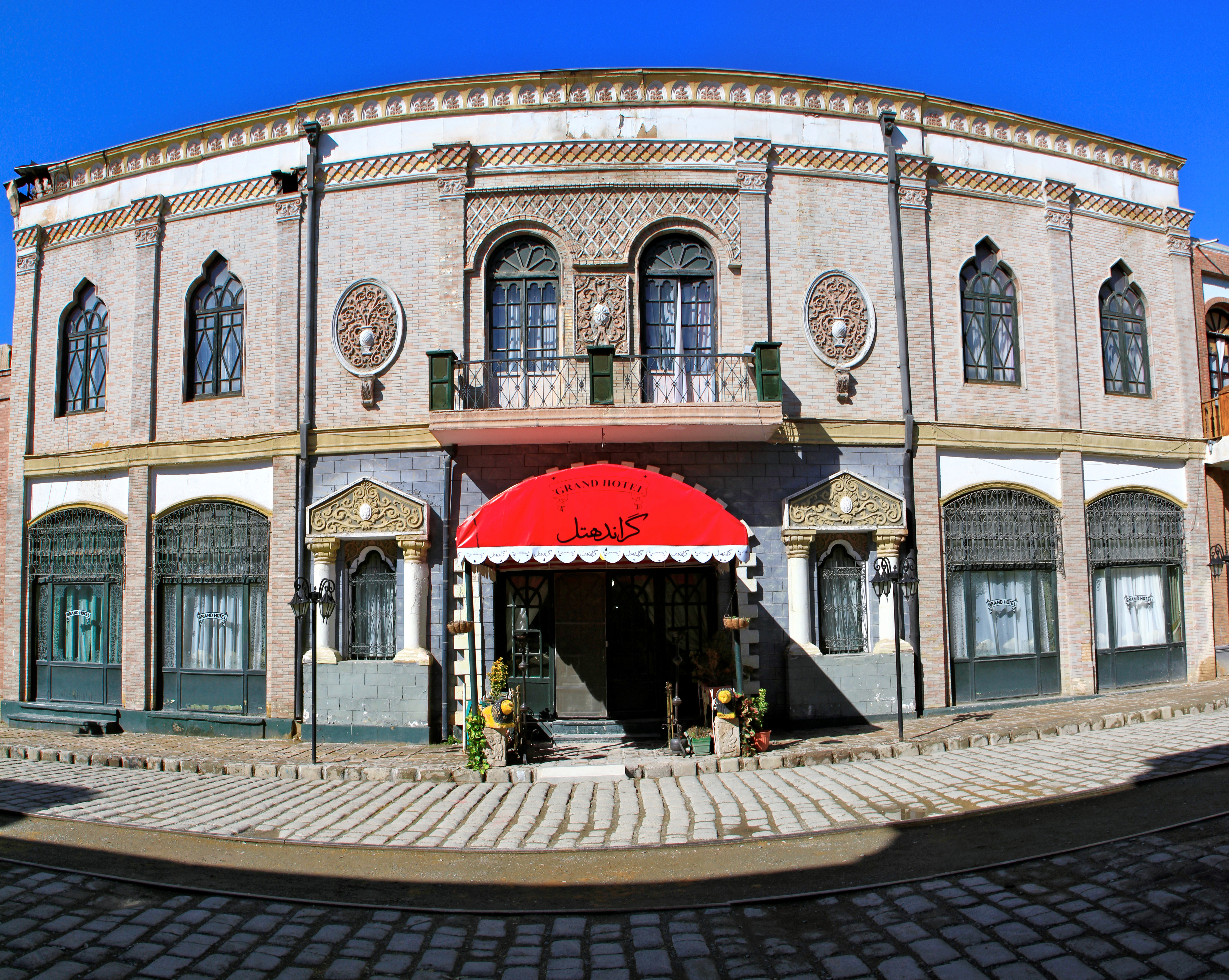 Grand Hotel In Ghazali cinema City Tehran